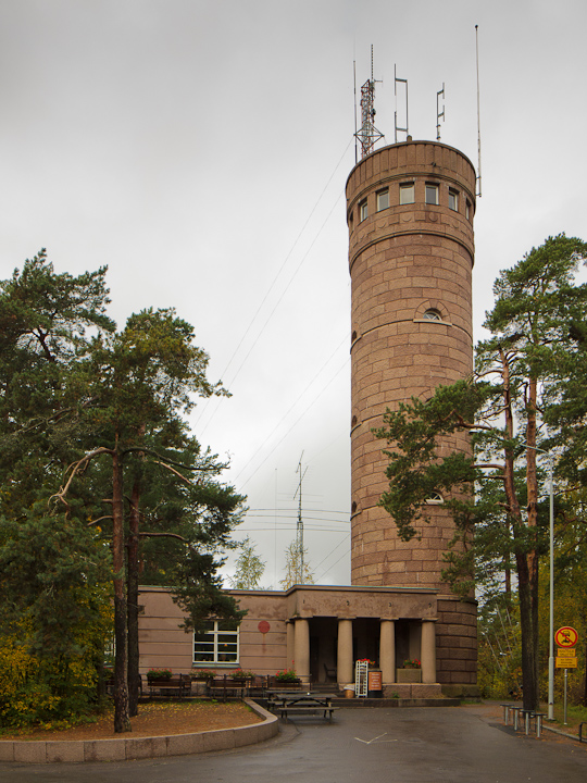 The Pyynikki observation tower, Tampere, Finland. Fall 2012.